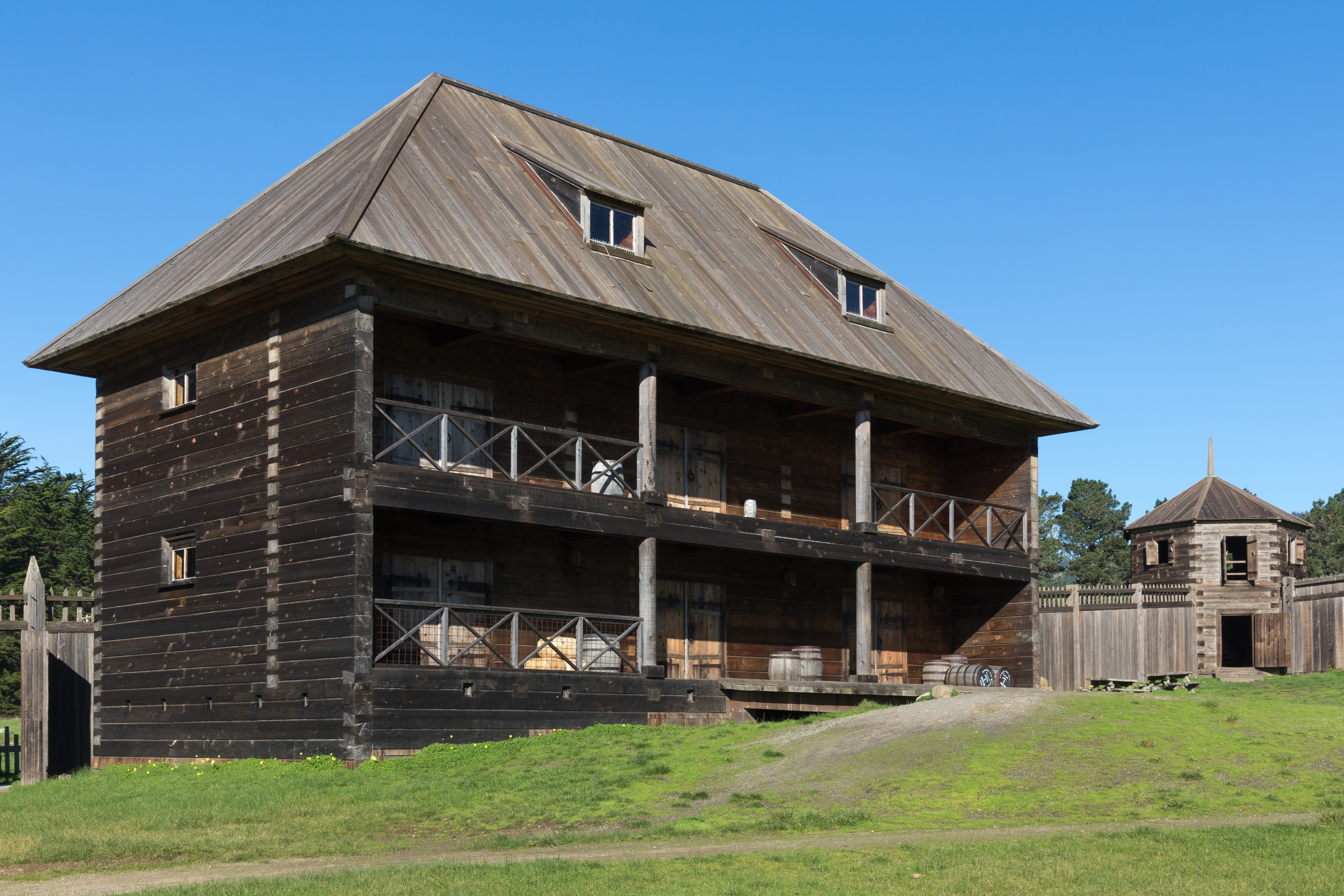 The Old Magasin at Fort Ross, Sonoma County, California